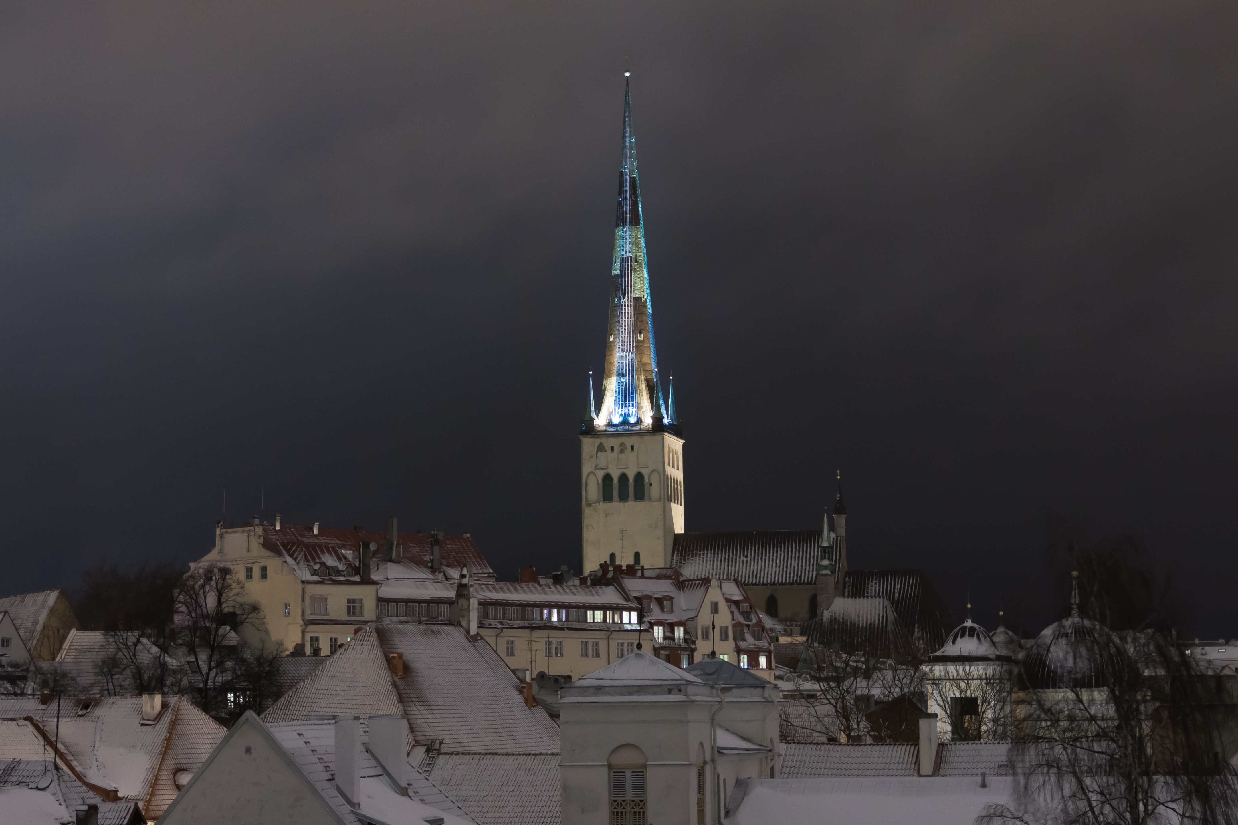 St. Olaf's Church (Oleviste) at night in Tallinn, Estonia